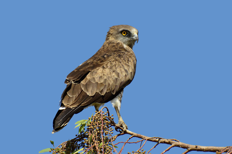 Wildlife and Plants of Israel